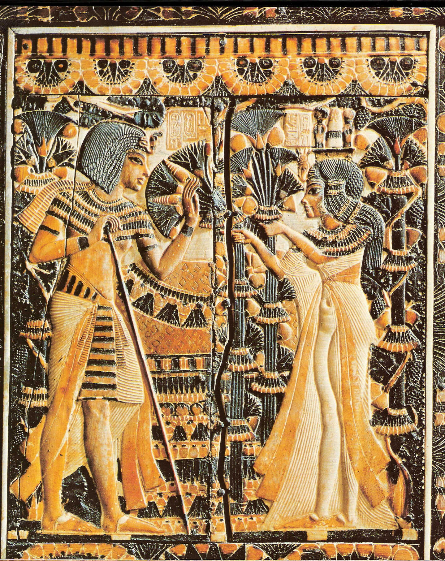 Tutankhamun receives flowers from Ankhesenamun. This image is on the lid of a box found in Tut's tomb.